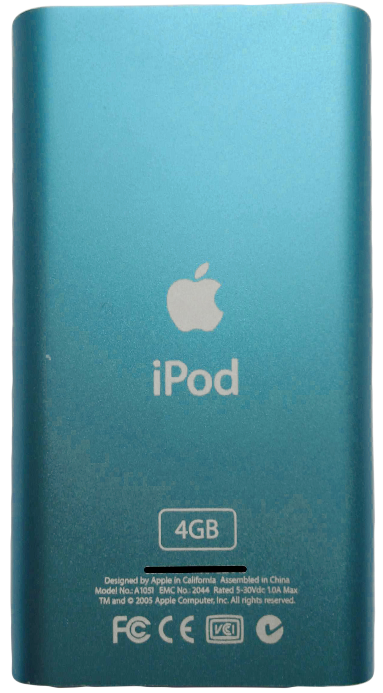 This is the back of iPod mini blue 2G